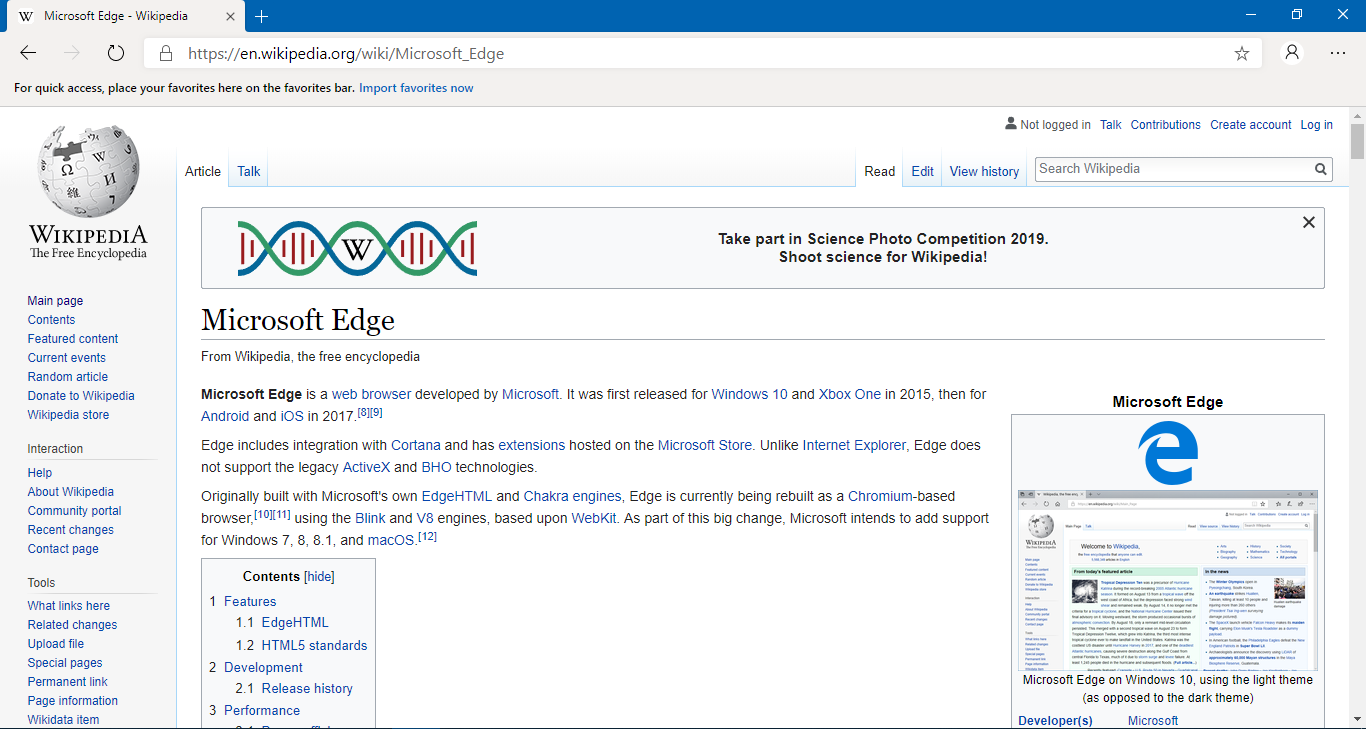 Version 75